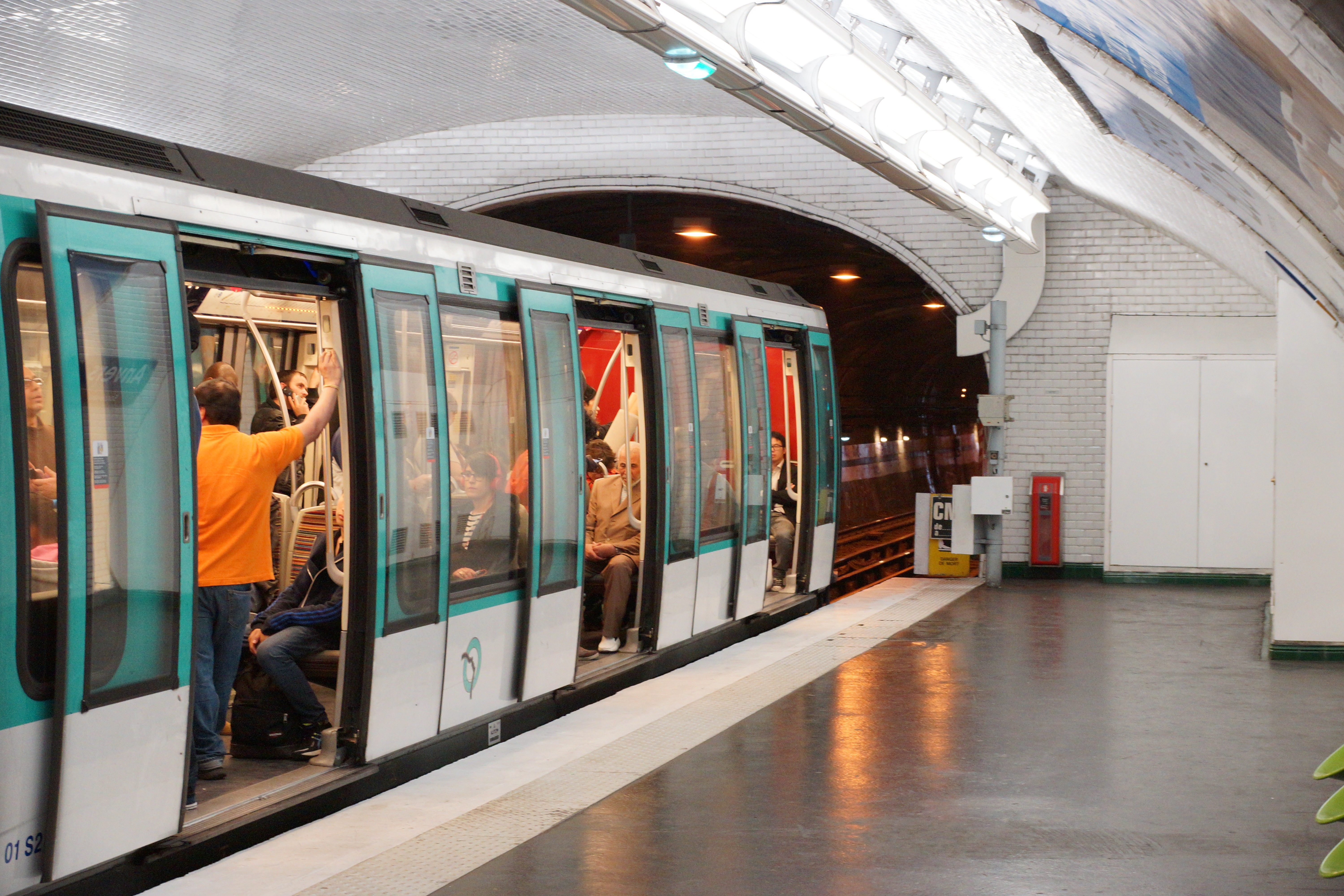 Anvers metro station, Paris.